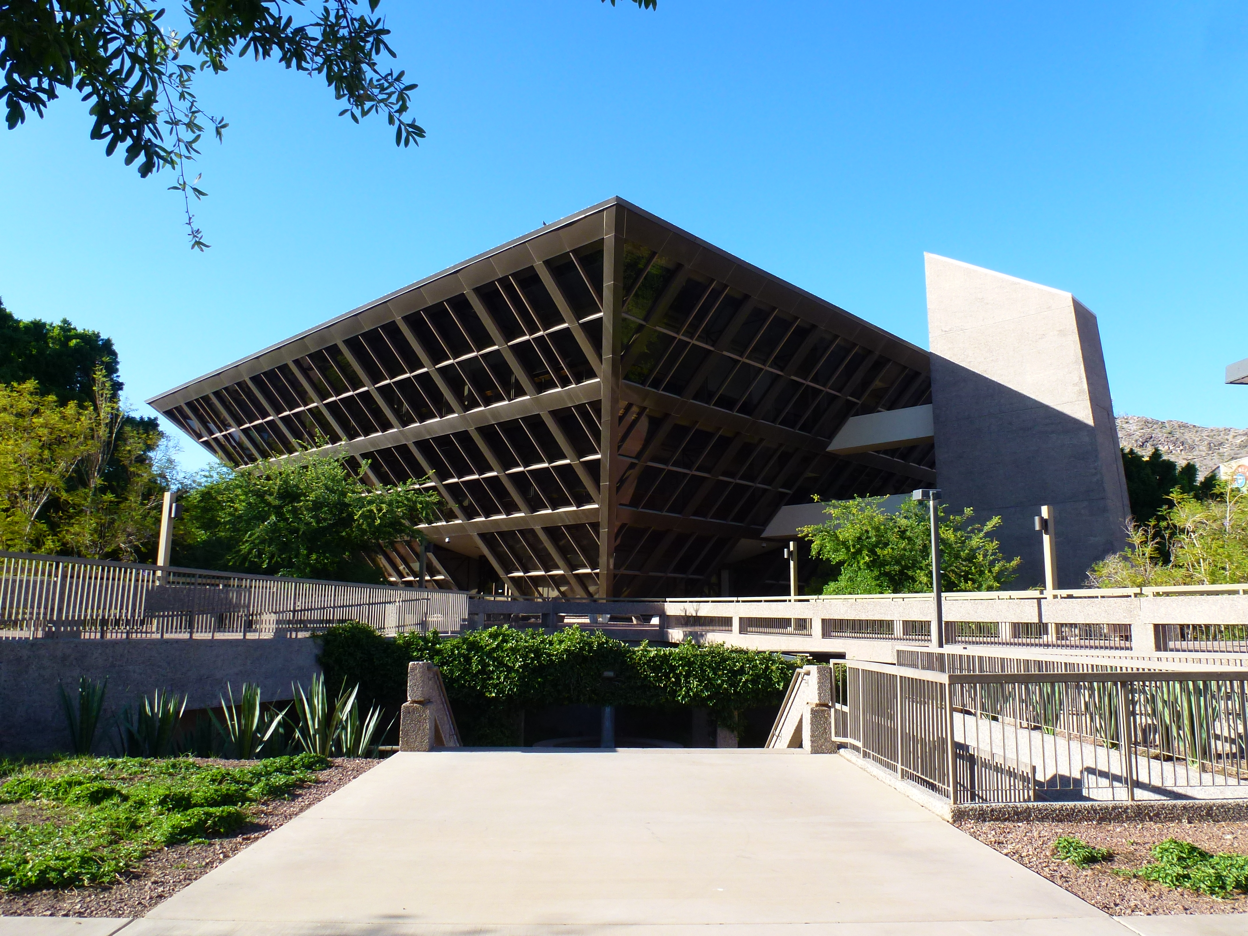 Tempe City Hall, Michael Goodwin, Architect, 2013